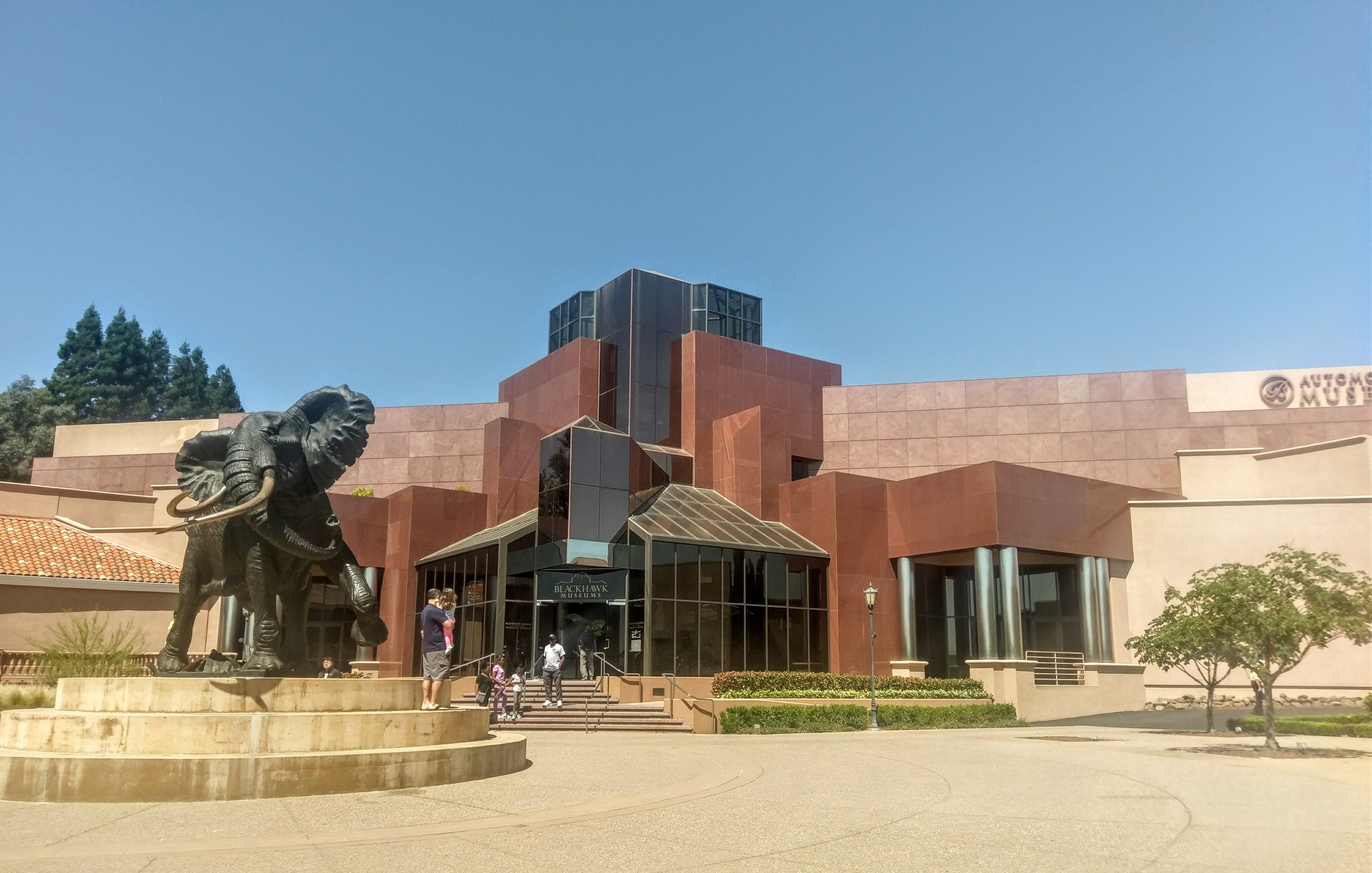 Photo by Jim Heaphy